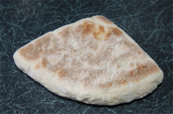 A Soda bread farl. This farl would have been connected to the others along the top and right hand straight edges.